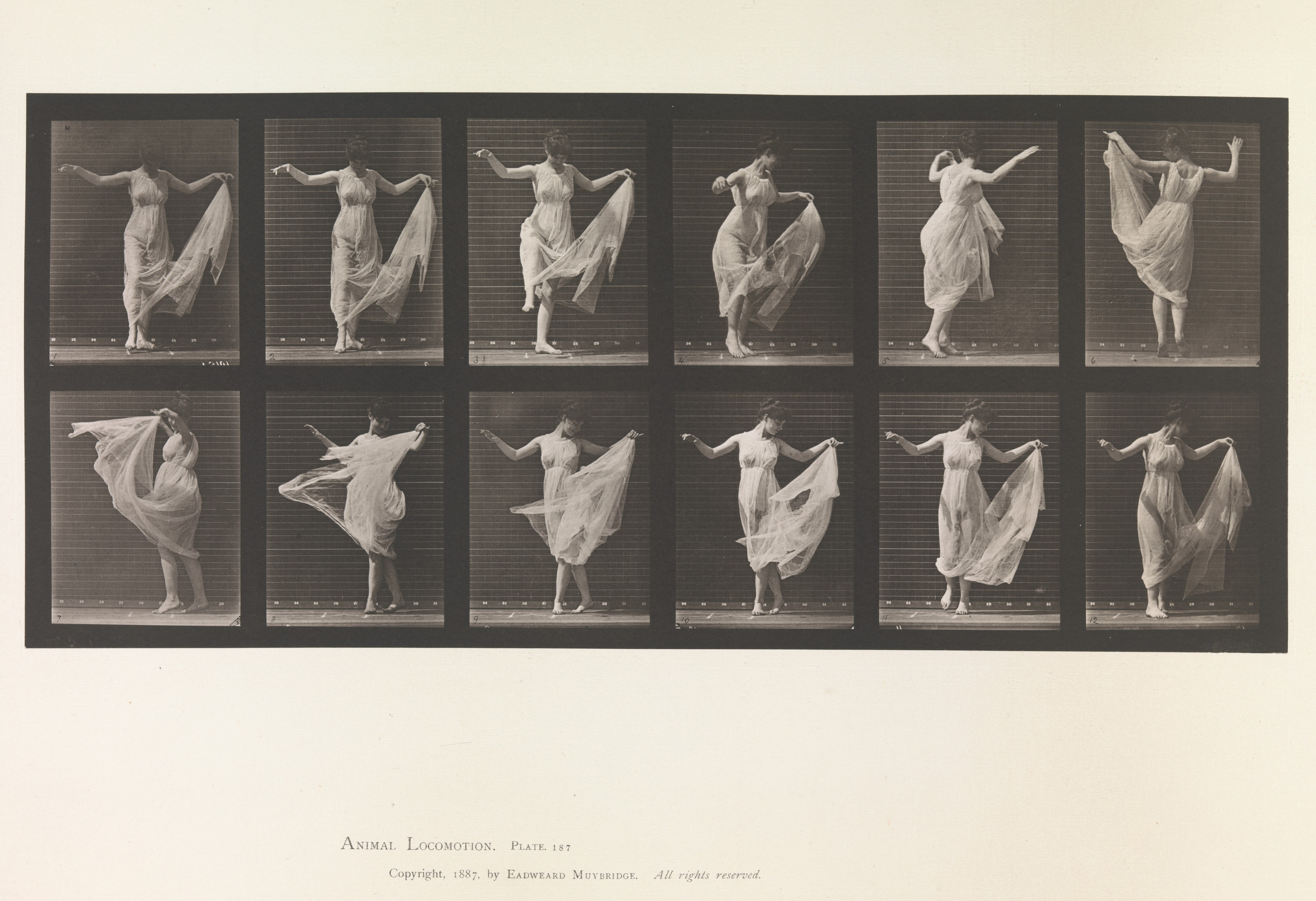 Photographically illustrated book; Books